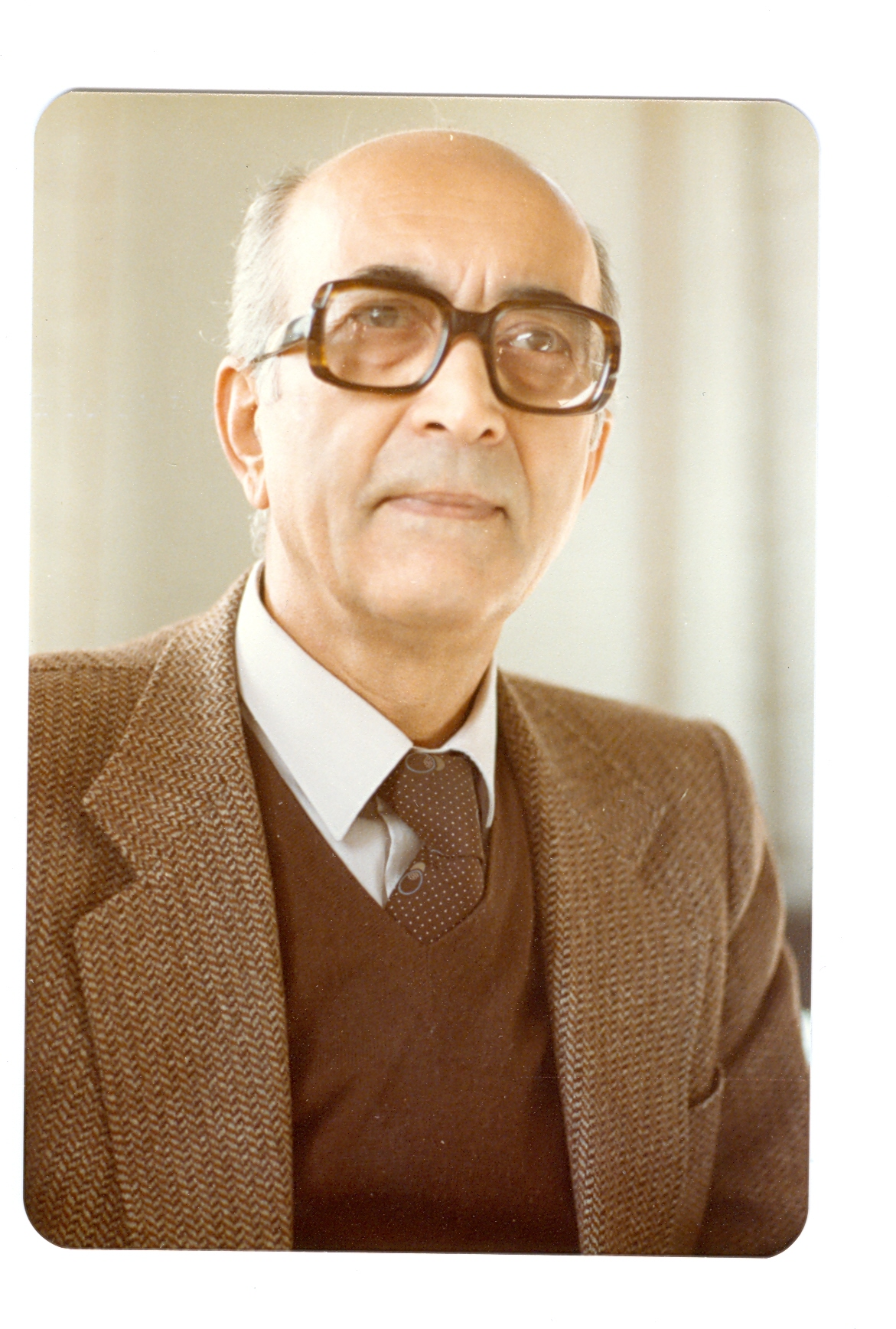 Mahmoud Hammad. Syrian artist 1923-1988.